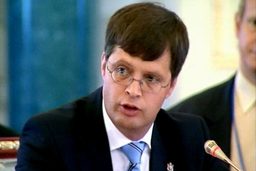 CONSTANTINE PALACE, STRELNA. Prime Minister of the Netherlands Jan Peter Balkenende at a plenary meeting of the Russia - EU Summit.